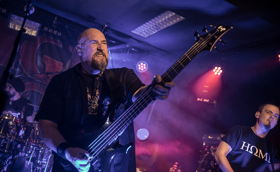 Mr. Peavy Wagner during his Show @ Oefenbunker 2015